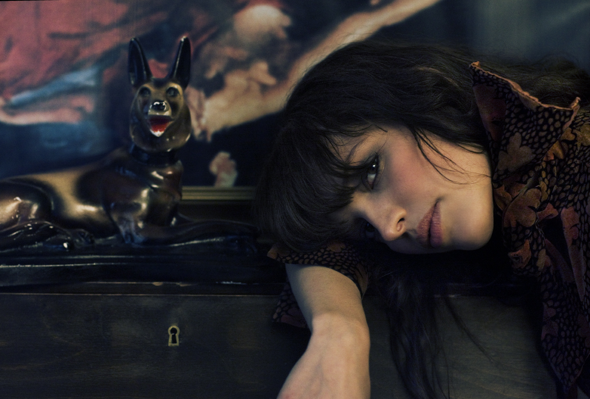 Portrait of Mrs Katrine Ottosen, otherwise known as CALLmeKAT, Danish pop singer, 2011